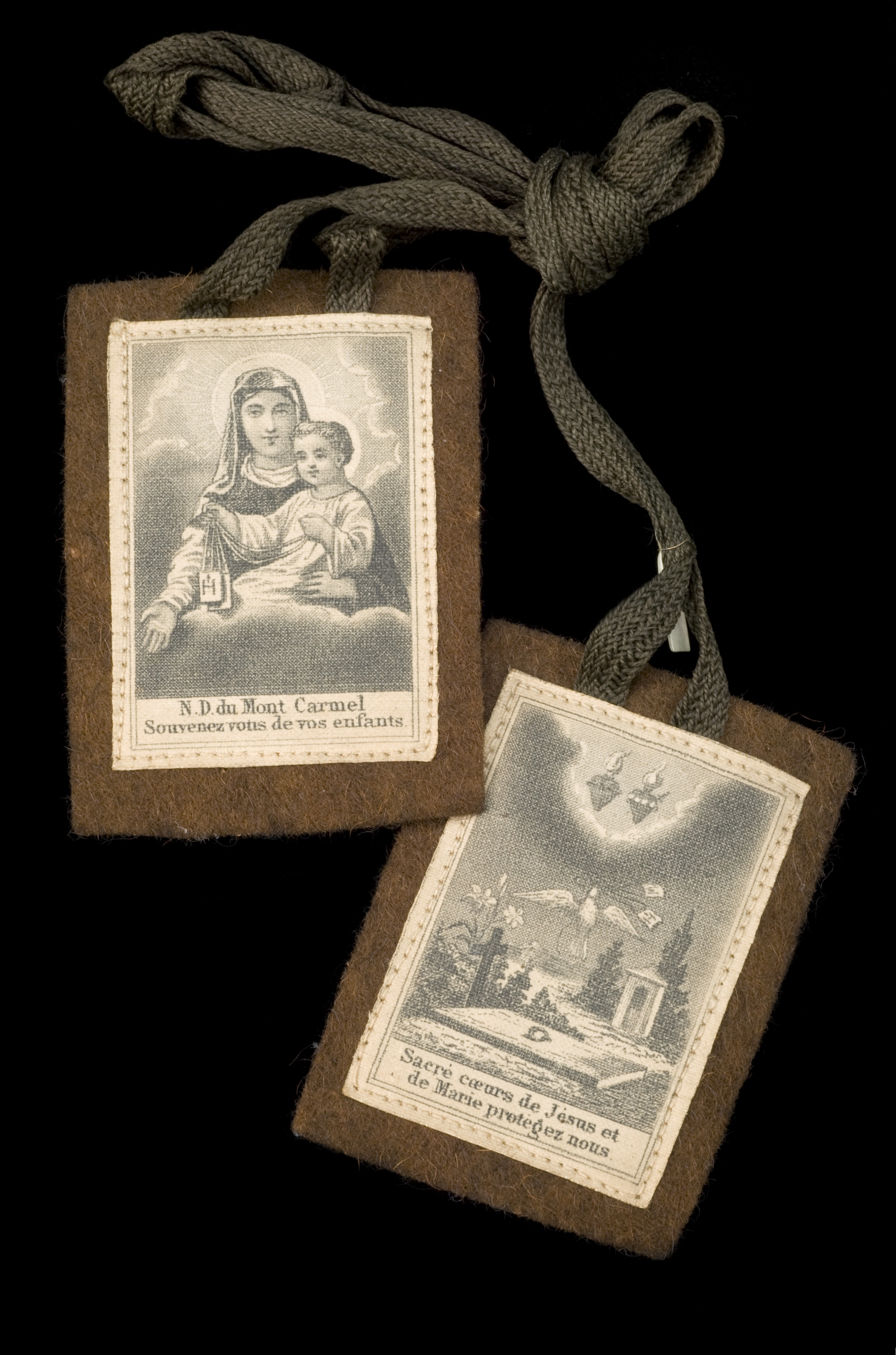 The scapular is worn as a sign of devotion to Mary and in Catholicism is associated with the Carmelite religious order. One piece of rectangular flannel is worn on the chest and the other on the back connected by a length of fabric. Many Catholics believe that the Virgin Mary can protect them from illness and other dangers and give help in times of need. The inscription translates from French as “Remember us your children, sacred heart of Jesus and Mary, protect us”. The image shows Mary, Mother of Jesus as the Blessed Virgin of Mount Carmel. In Catholic history, the original brown scapular was said to be given to Saint Simon Stock in 1251 by the Virgin Mary herself. The scapular was taken up and worn by the Carmelite order who declared 16 July – the date of the Virgin Mary’s appearance – as the feast day of the Blessed Virgin of Mount Carmel. This small scapular is symbolic of the larger ones worn by the Carmelite order and may well have been bought by a believer as a sign of devotion and for protection. maker: Unknown maker Place made: Europe Wellcome Images Keywords: scapular